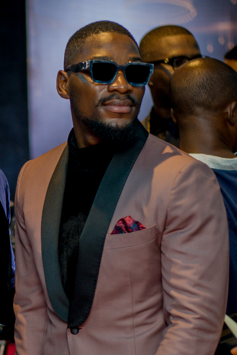 Pictures from AMVCA 2020